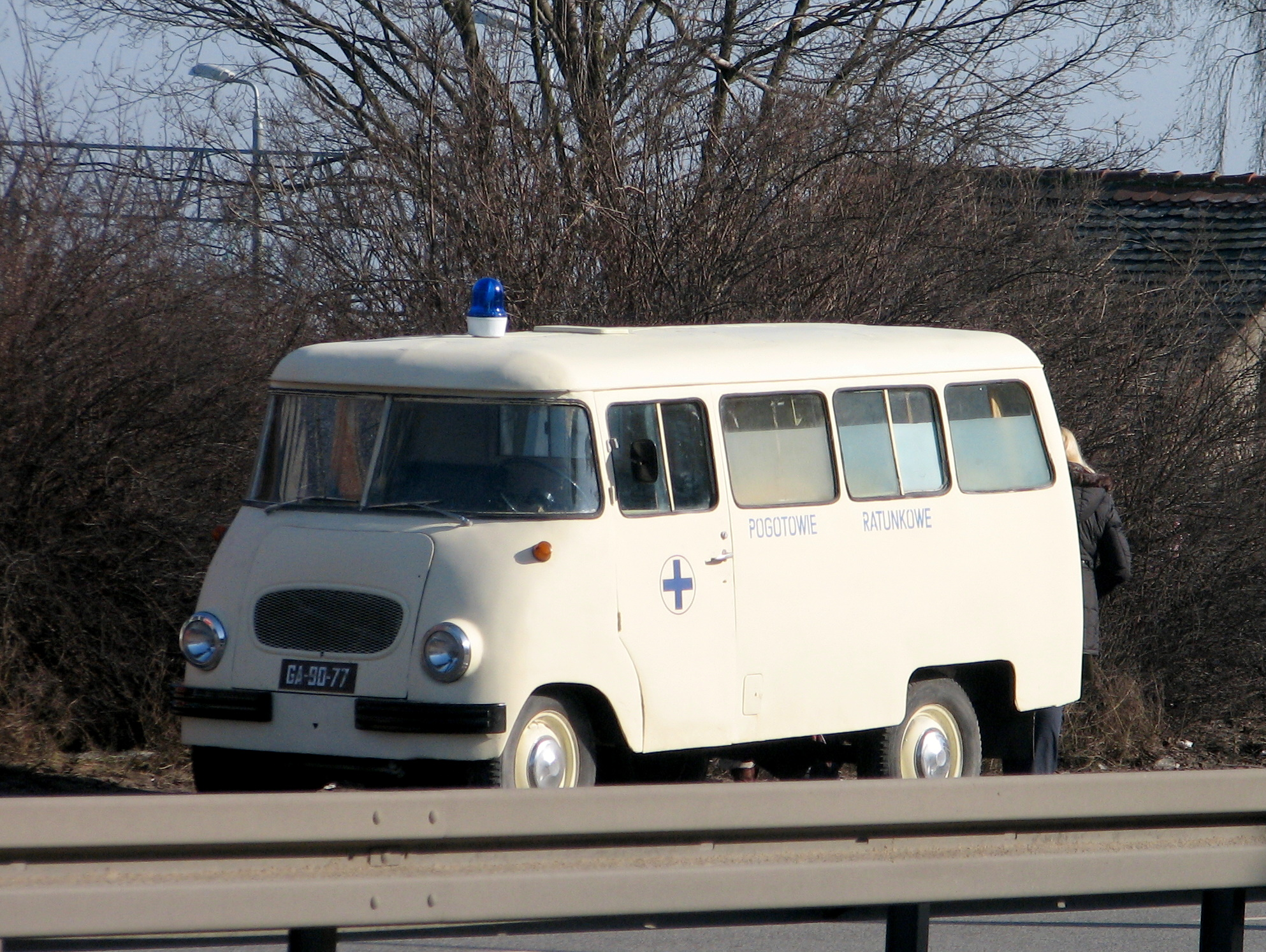 Filming of "Black Thursday" at Morska Street, Gdynia. People on this picture are actors, extras, and film crew. "Black Thursday" is a film about Polish 1970 protests.